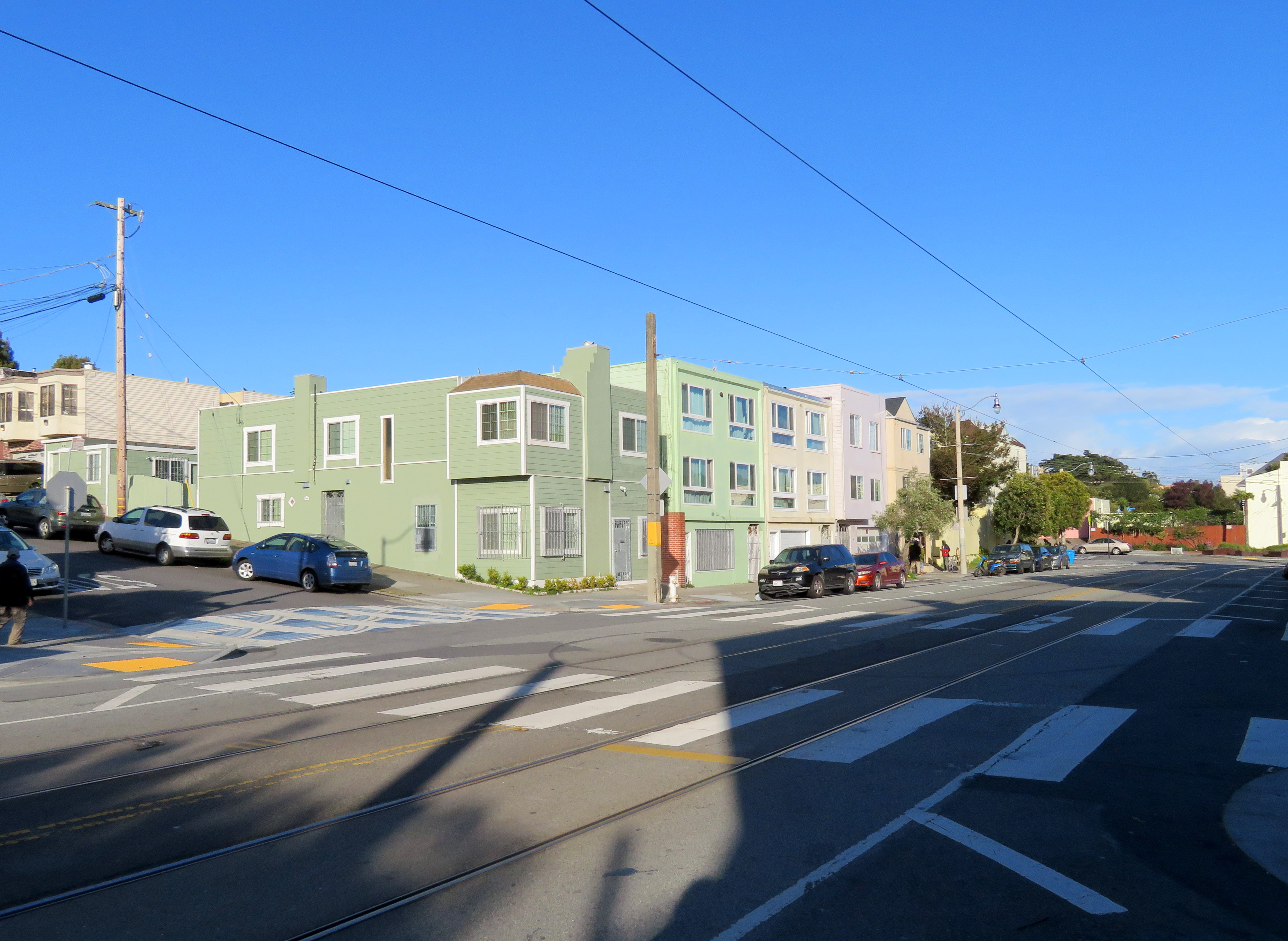 Randolph Street and Bright Street in February 2019